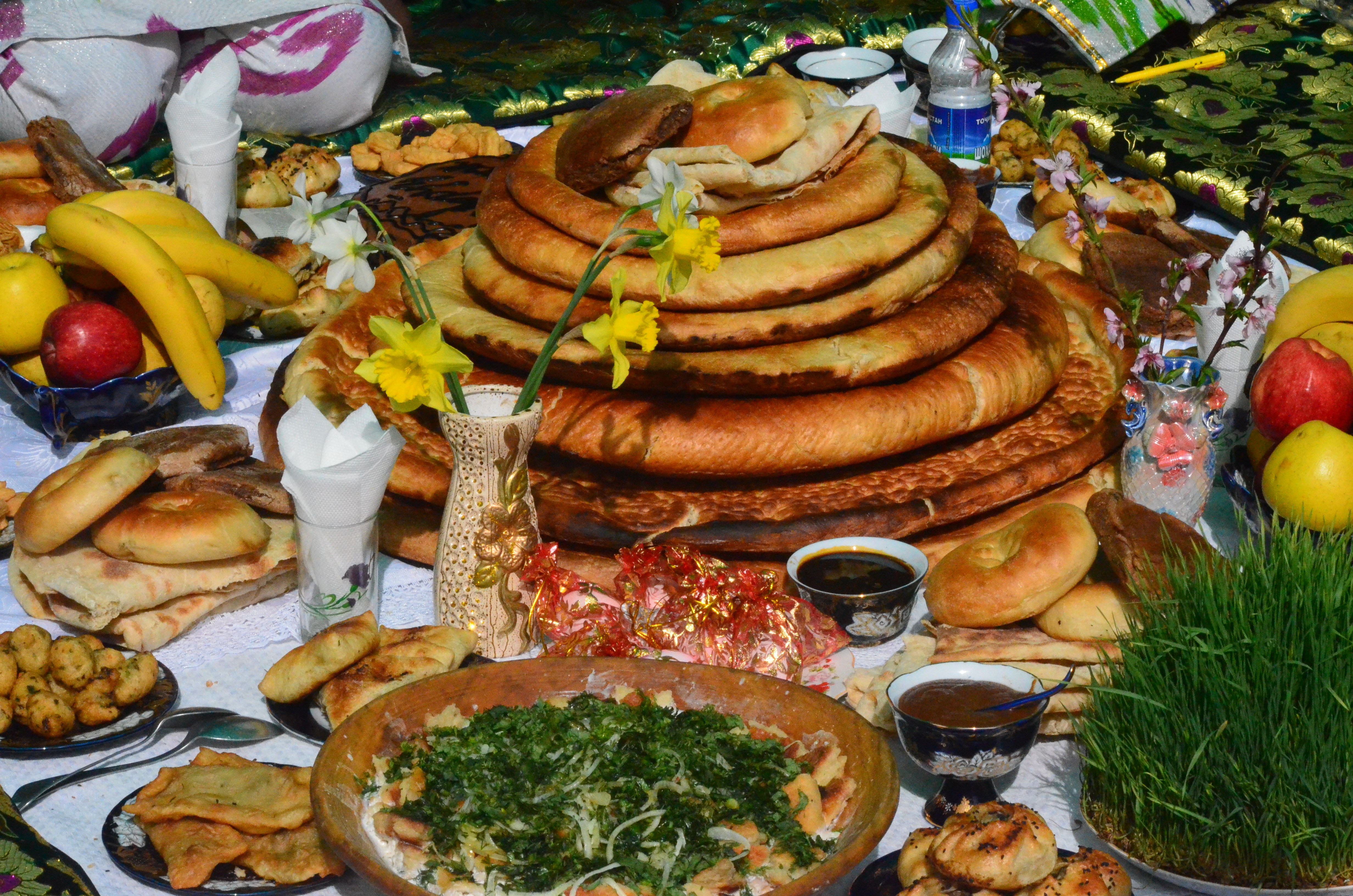 Navruz table in TajikistanТоҷикӣ: Зиёфати ҷашни Наврӯз дар Тоҷикистон